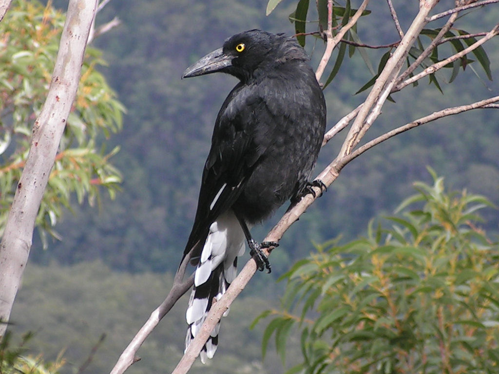 Pied Currawong (Strepera graculina graculina), Blue Mountain, New South Wales